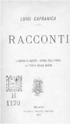 Picture of the cover of the novel "La festa delle Marie" by Luigi Capranica